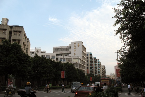 Shaoguan Tianjiabing Middle School(Outside)